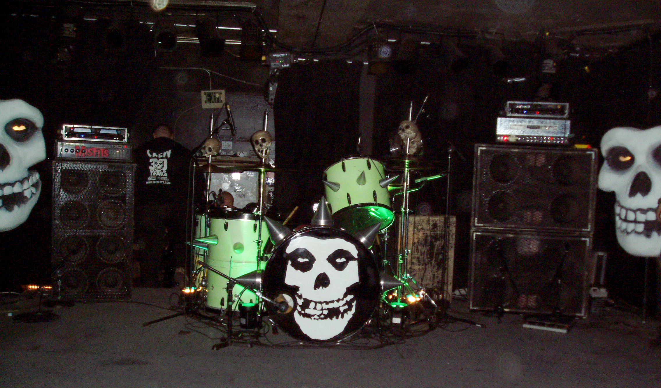 Misfits' stage in Fort Collins, Colorado